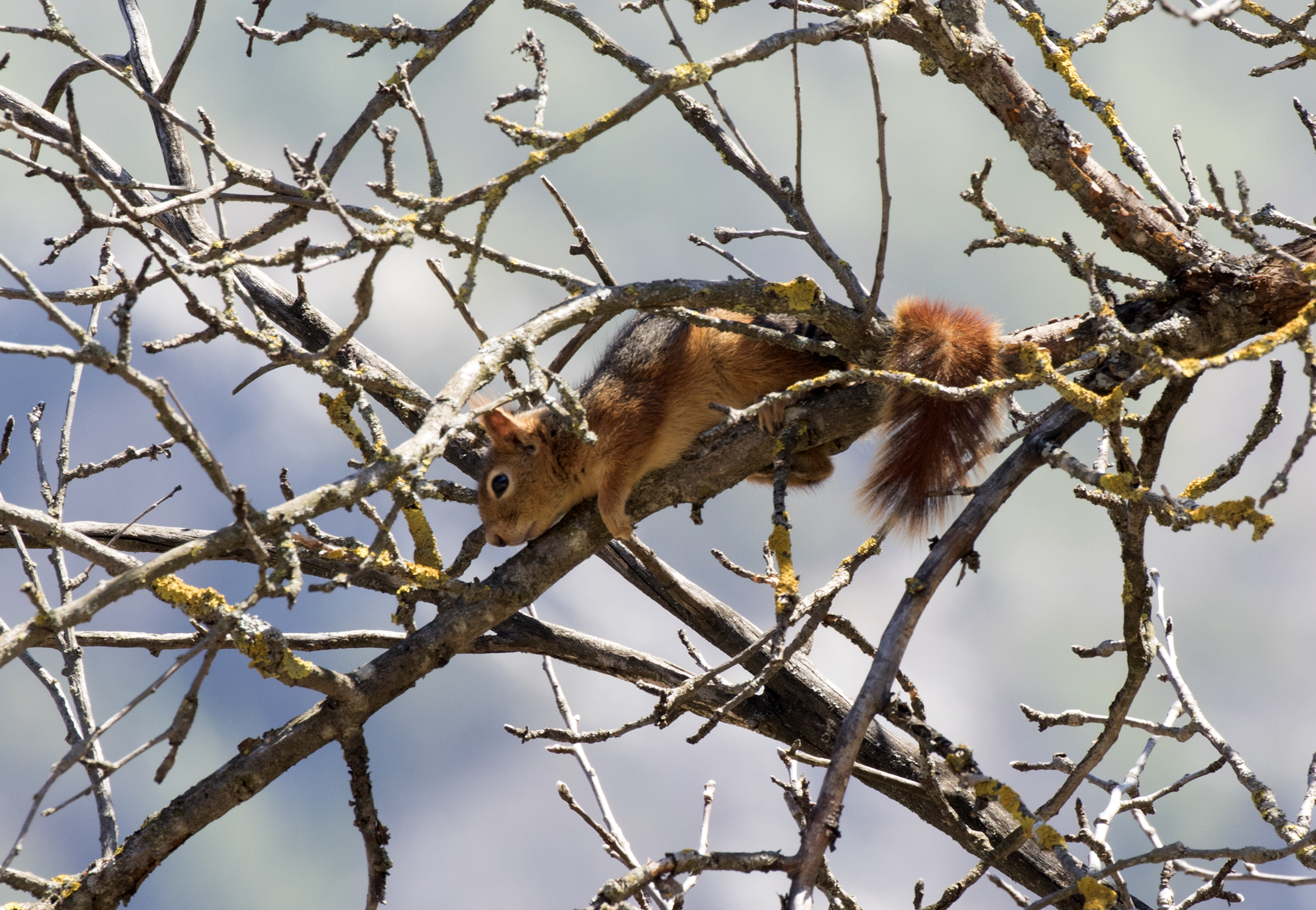 A Caucasian Squirrel (Sciurus anomalus) resting on the branches of a tree. Saimbeyli - Adana, Turkey.